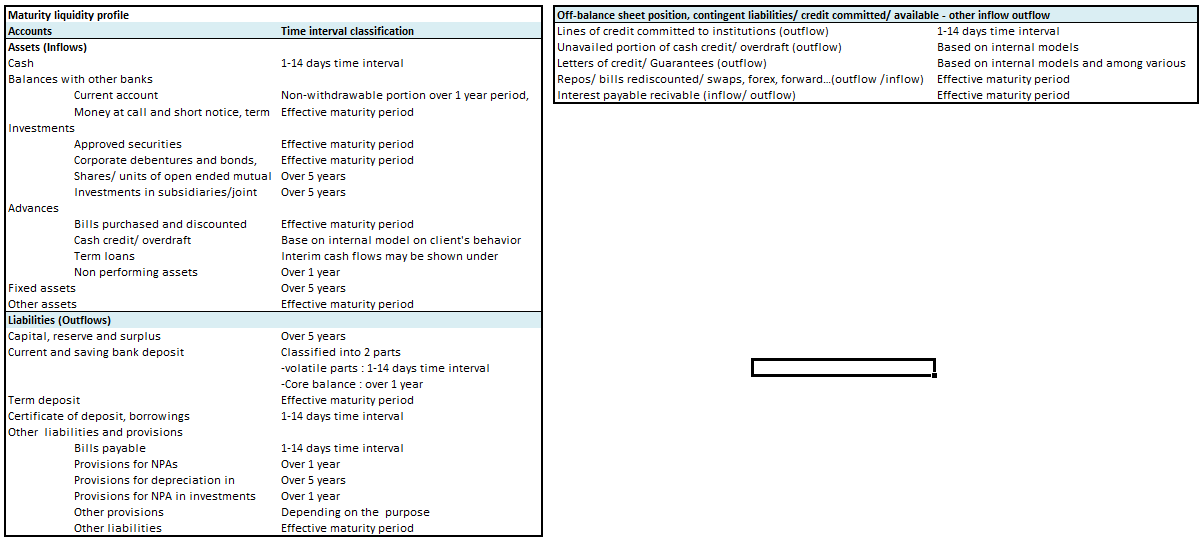 Indicative maturity liquidity profile of balance sheet items for measuring future cash flows movements of the bank in various time interval